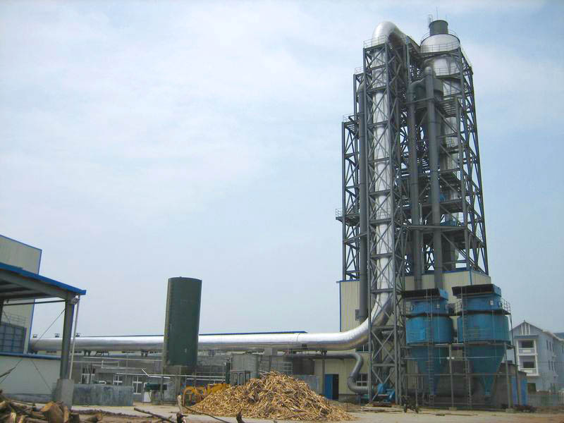 Fiber Drier